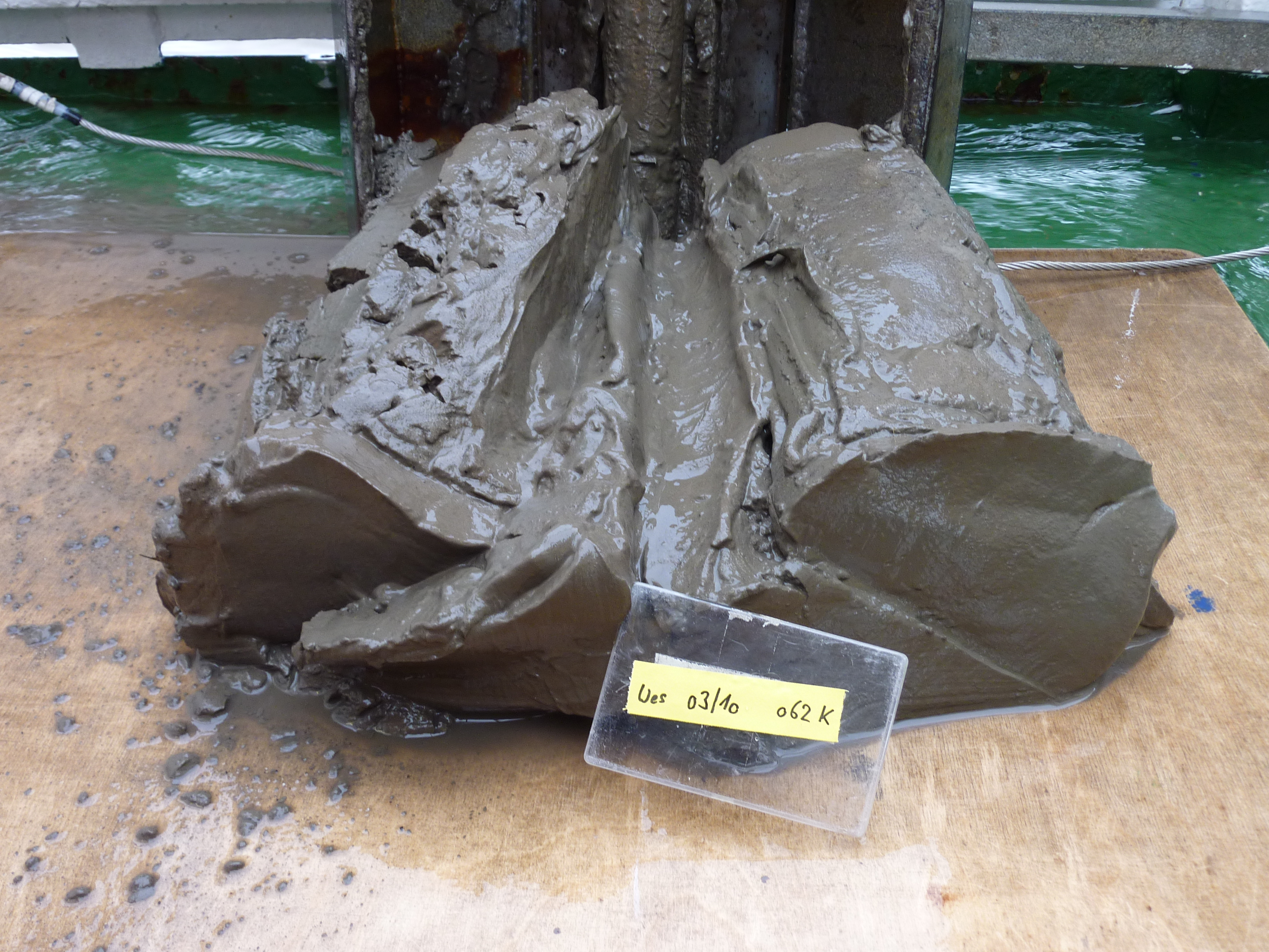 Mud sample collected using a van Veen-Grabber in the Weser estuary.